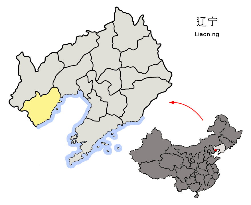 Location of Huludao Prefecture (yellow) within Liaoning Province of China Map drawn in november 2007 using various sources, mainly : Liaoning Province administrative regions GIS data: 1:1M, County level, 1990 Liaoning Counties map from